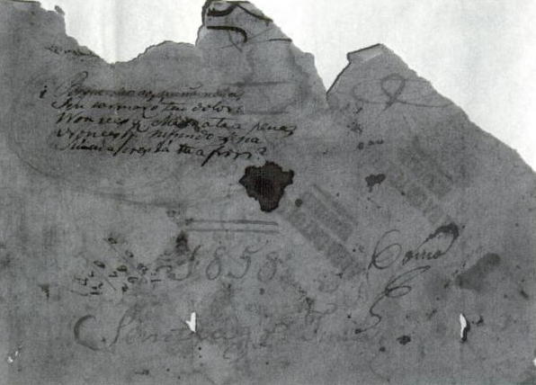 Piece of sheet must have belonged to the cover of Diccionario del dialecto gallego de Luís Aguirre del Río.